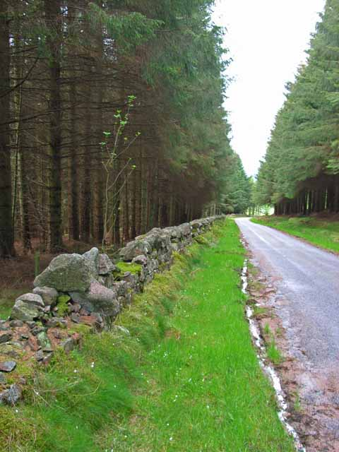 Road through Durris Forest. The old field wall on the left is a relic from the days before forestry took over so many of these hills.